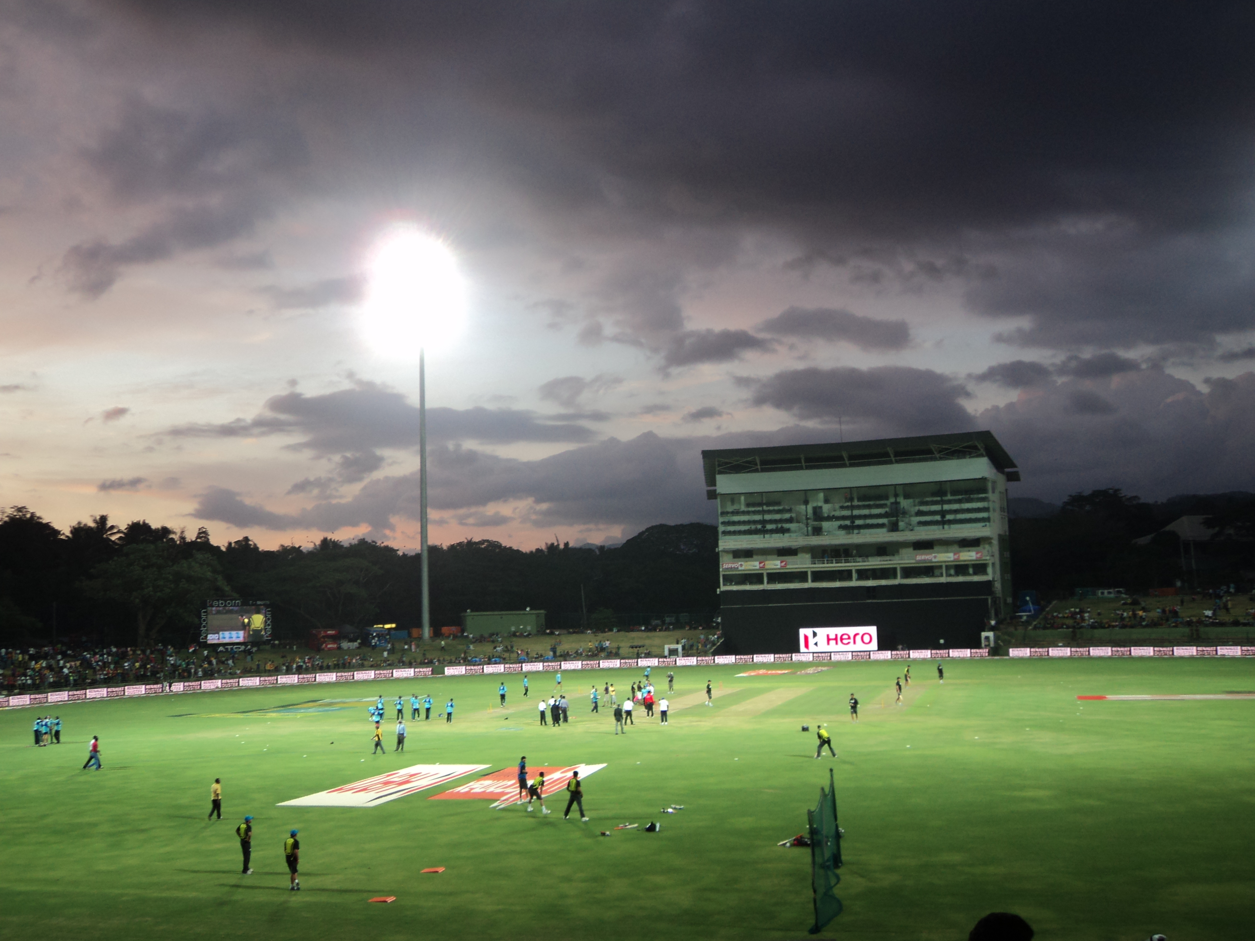 Pallekele International Cricket Stadium, Kandy, Sri Lanka